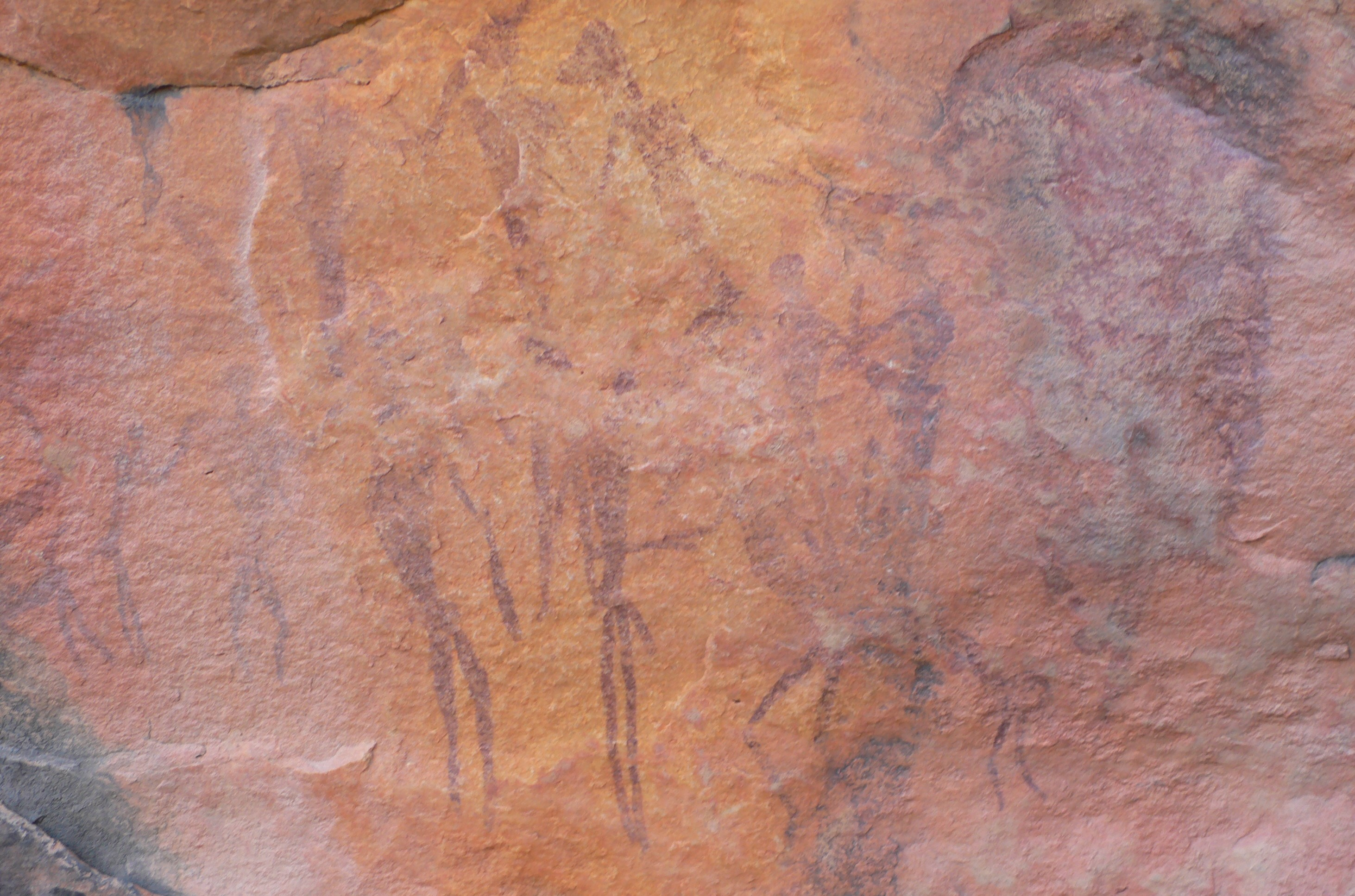 My image from the Cederberg, South Africa, Feb 2007